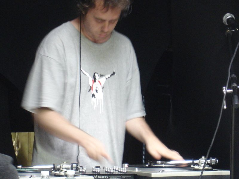 DJ Cut Chemist